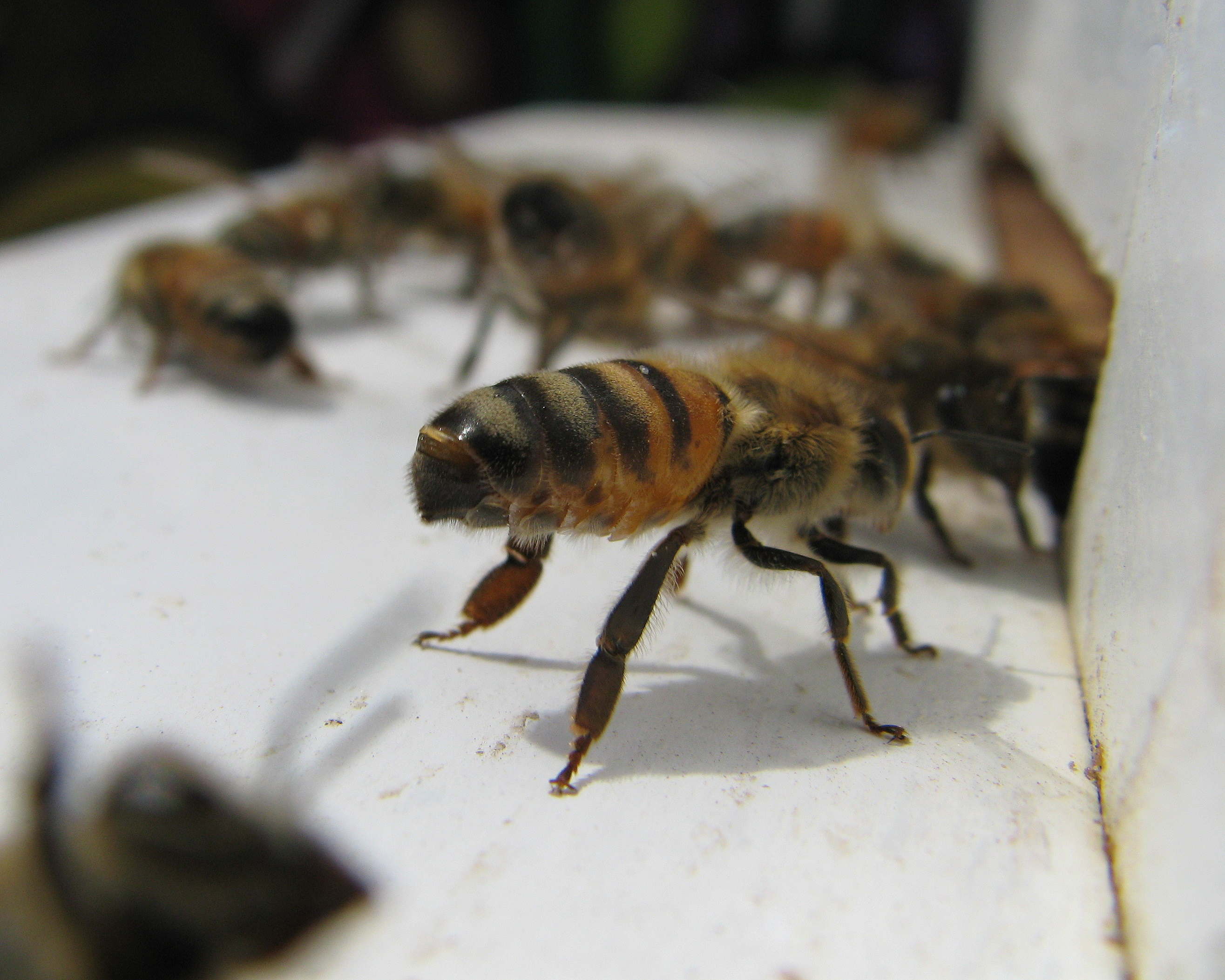 Honeybee exposing her Nasonov gland to release an orienting pheromone.